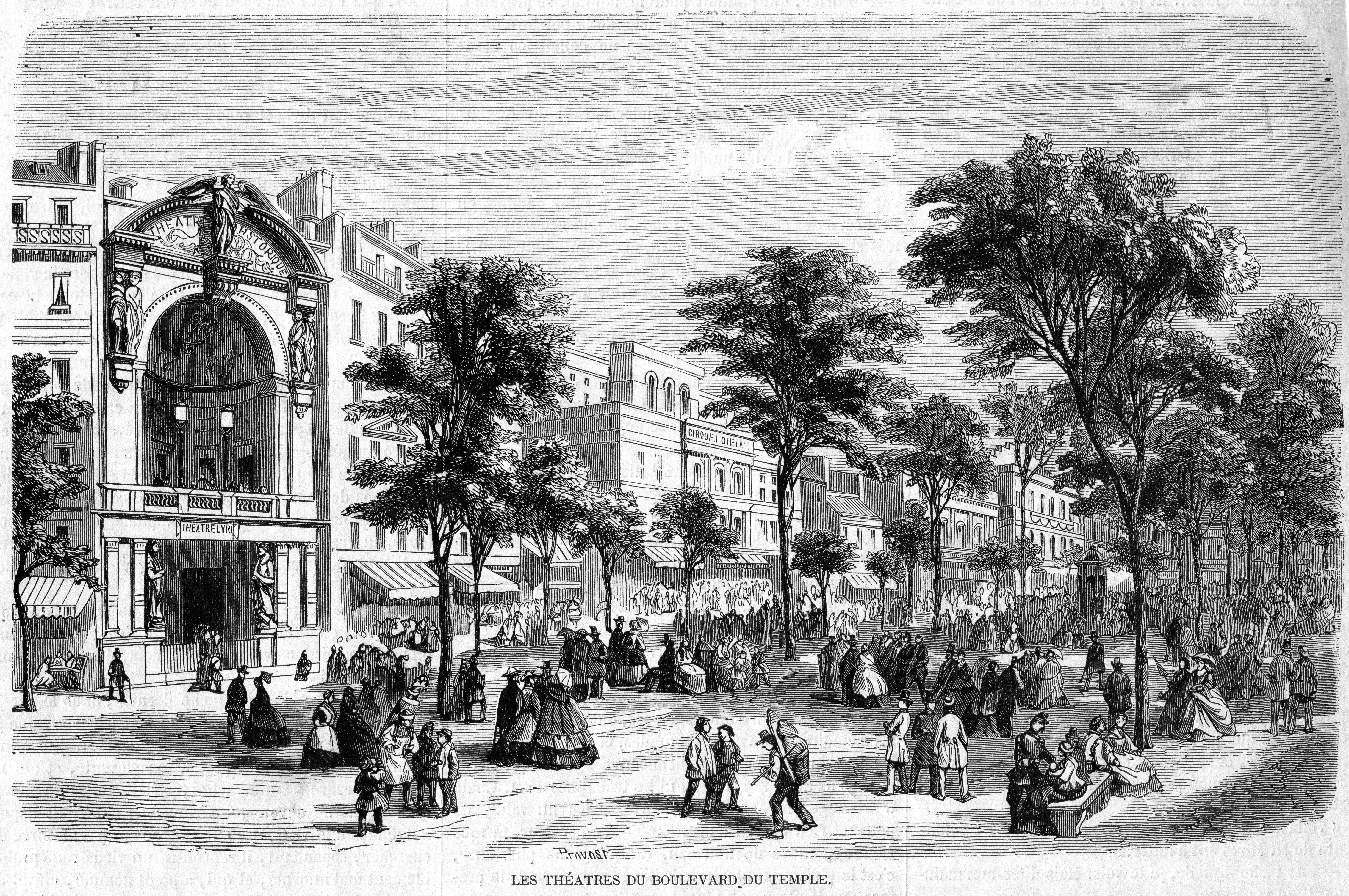 L'Illustration 1862 gravure Les théatres du Boulevard du Temple avant destruction par Haussmann